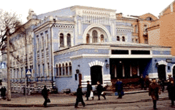 Building of the Brodsky Synagogue in Kiev, Ukraine around 1970. Picture from Yiddish Wikipedia (here).